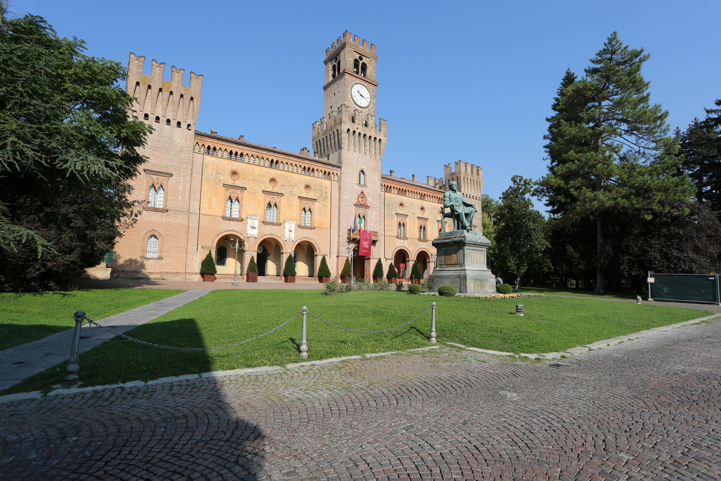 This is a photo of a monument which is part of cultural heritage of Italy. italy)